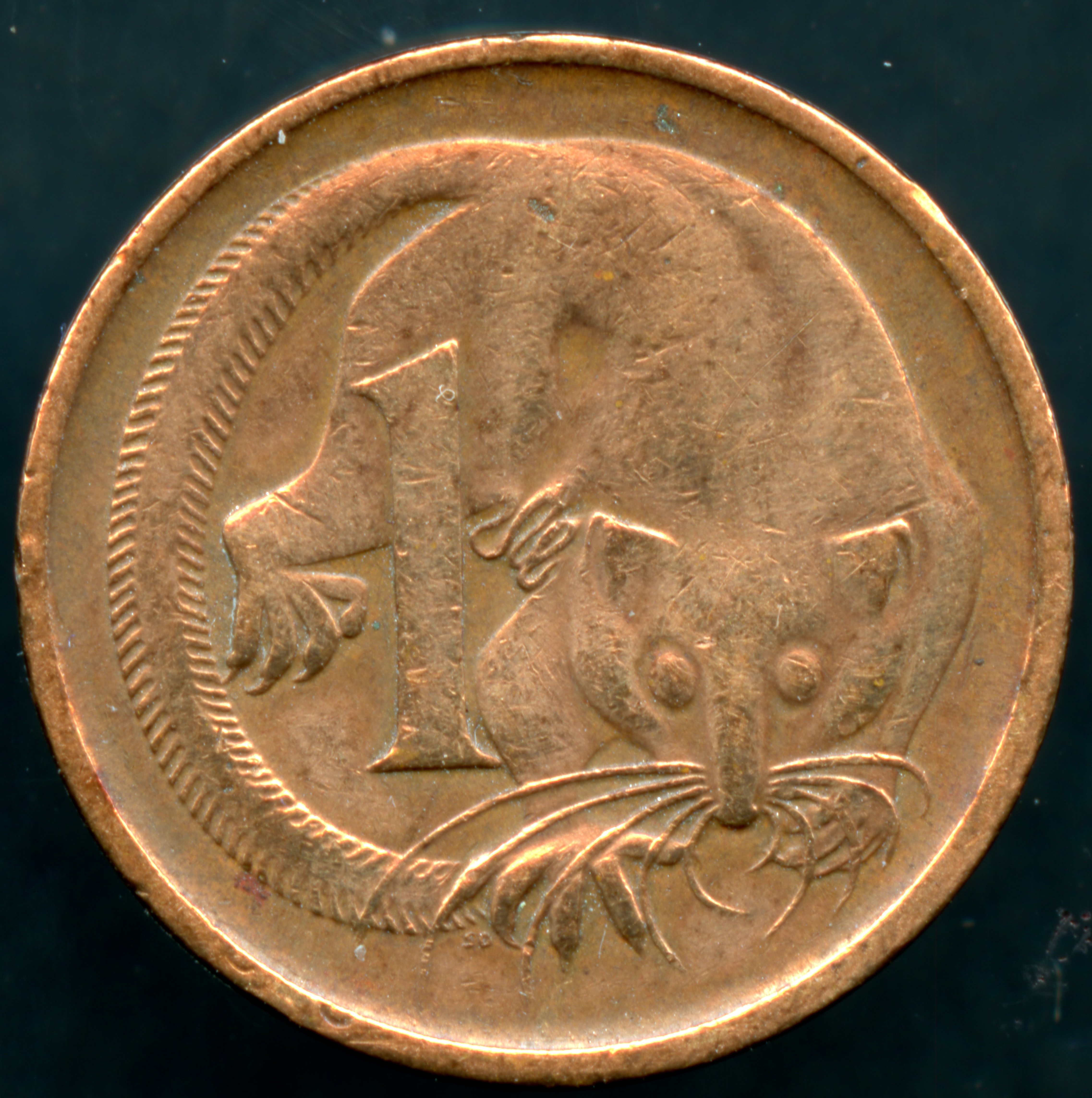 Australian one cent minted 1966